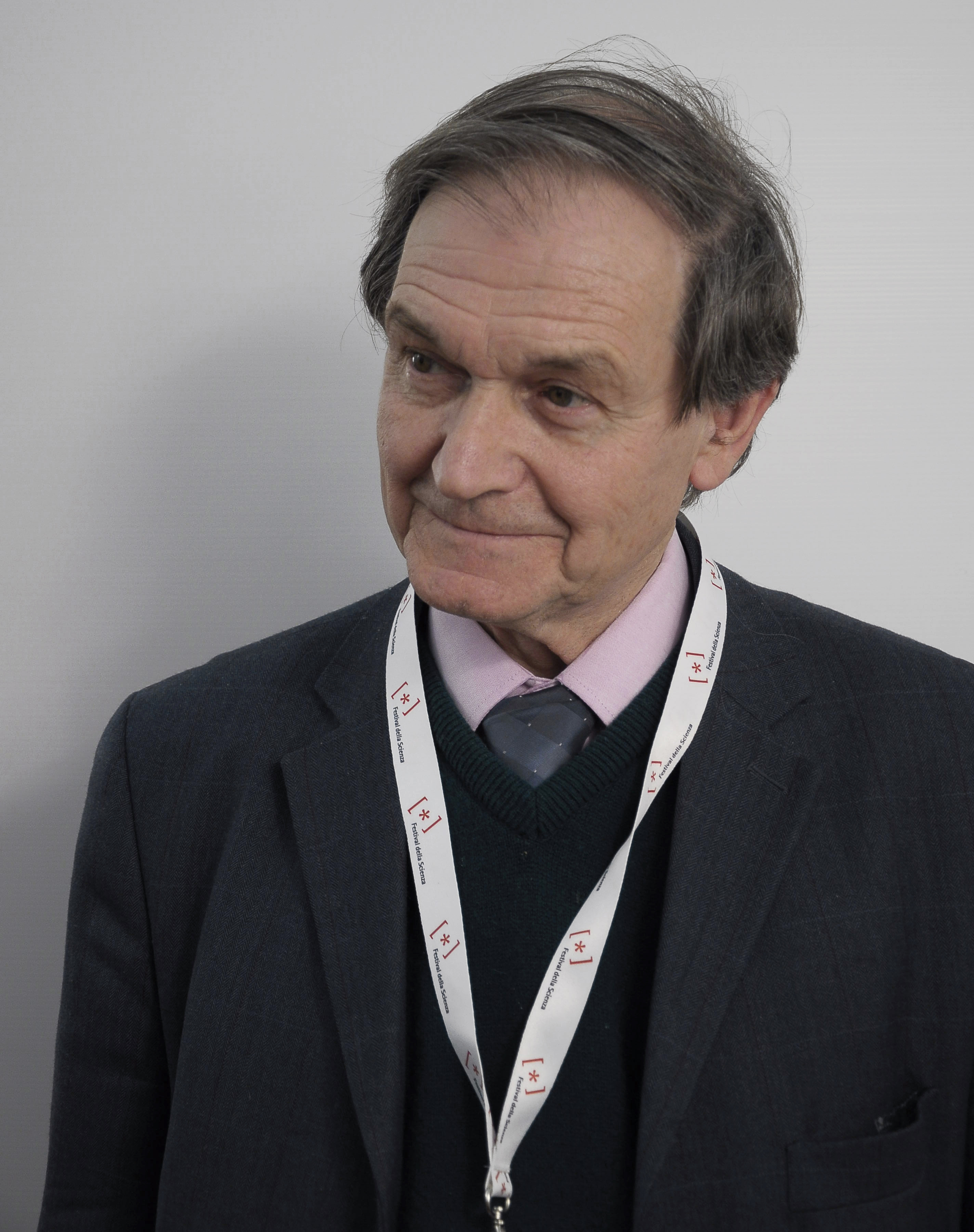 English physicist Roger Penrose at the 2011 Festival della Scienza, held in Genoa, Italy.